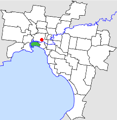 Location of the City of Port Melbourne within Melbourne.